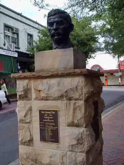 picture taken by Marc Pasquin on 26/03/2007